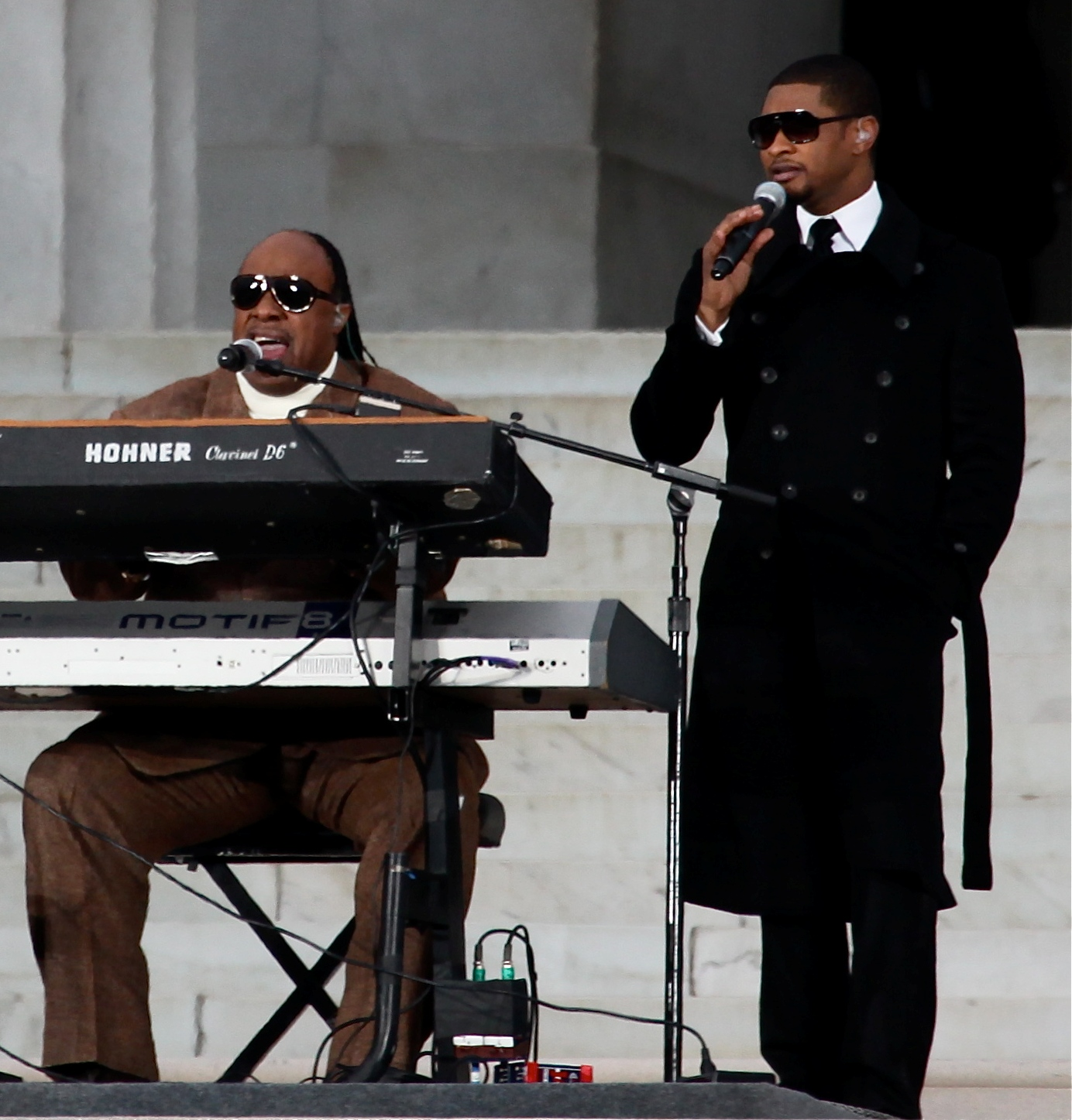 Usher joining Stevie Wonder for a performance of Wonder's "Higher Ground" at the We Are One: The Obama Inaugural Celebration at the Lincoln Memorial concert.